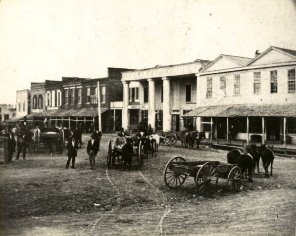 Wagons, livestock, and men are on an unidentified street in front of a row of buildings in Huntsville, Texas. Businesses advertised on buildings include T & S Gibbs, Eastman Pace & Parish, and James R. Cox.